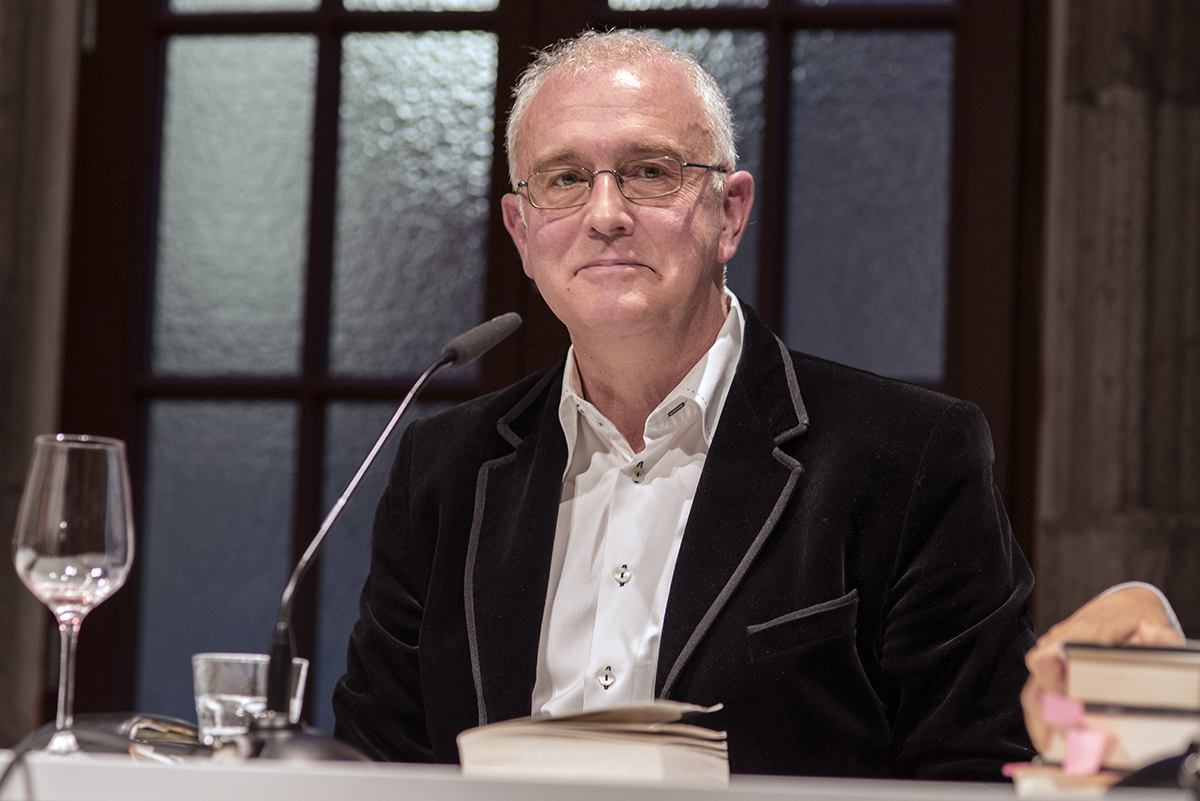 The irish writer Joseph O'Connor at Literaturhaus Cologne, may 2015